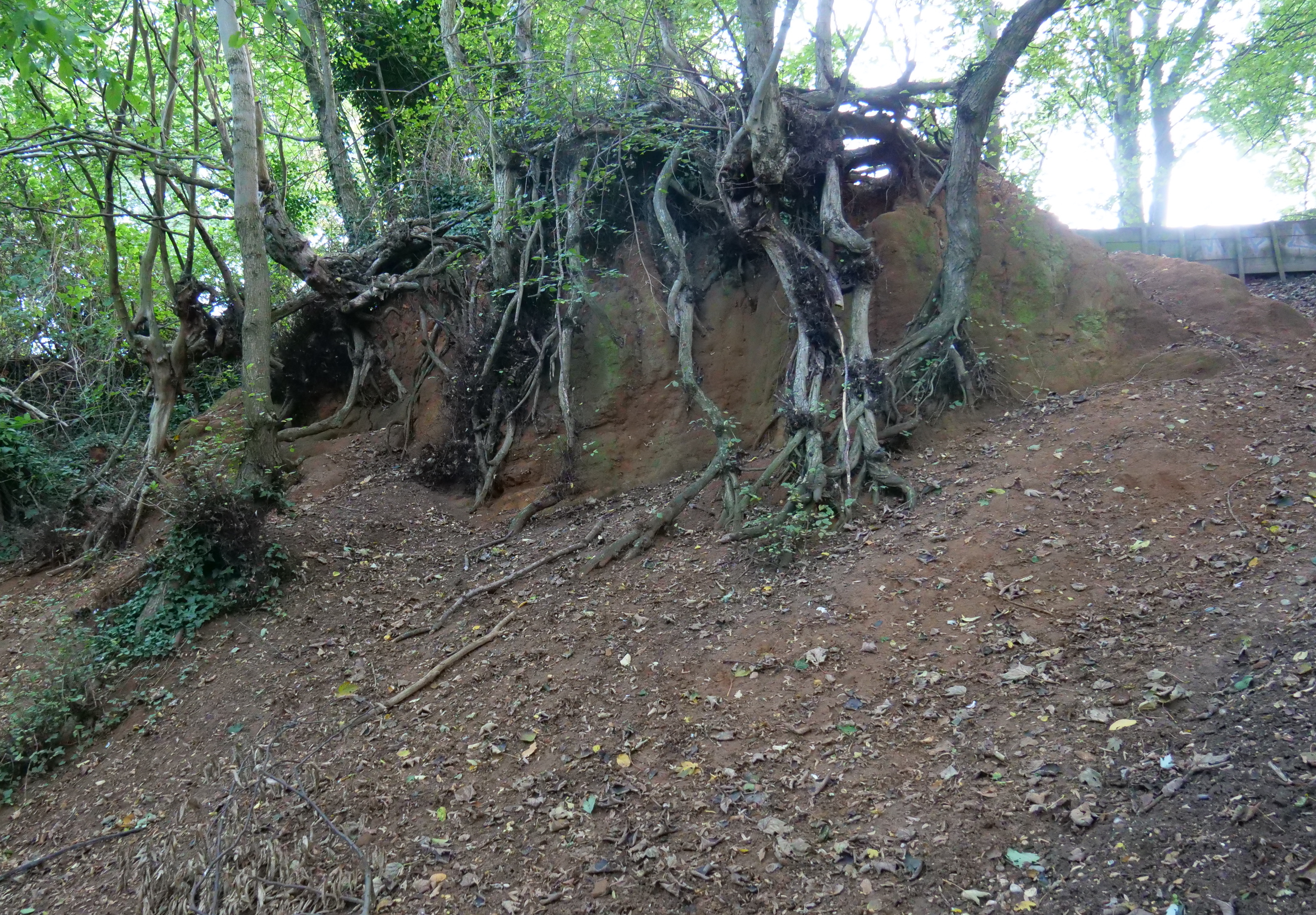 Roots of a tree by eroded bank of red crag